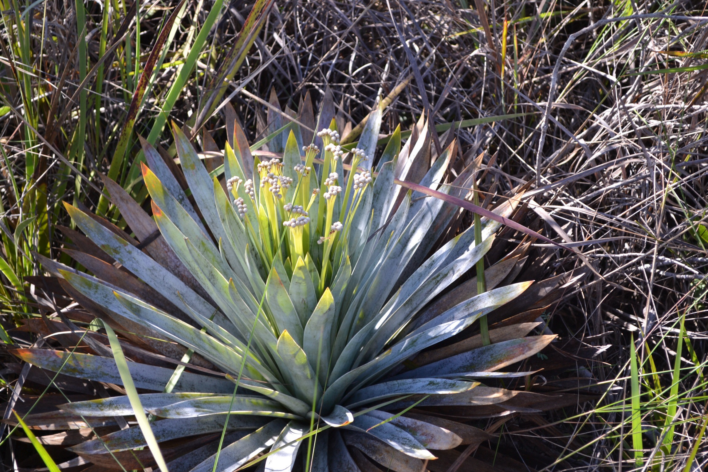 Photo of a species of Eriocaulaceae taken at Serra do Cipó in Minas Gerais